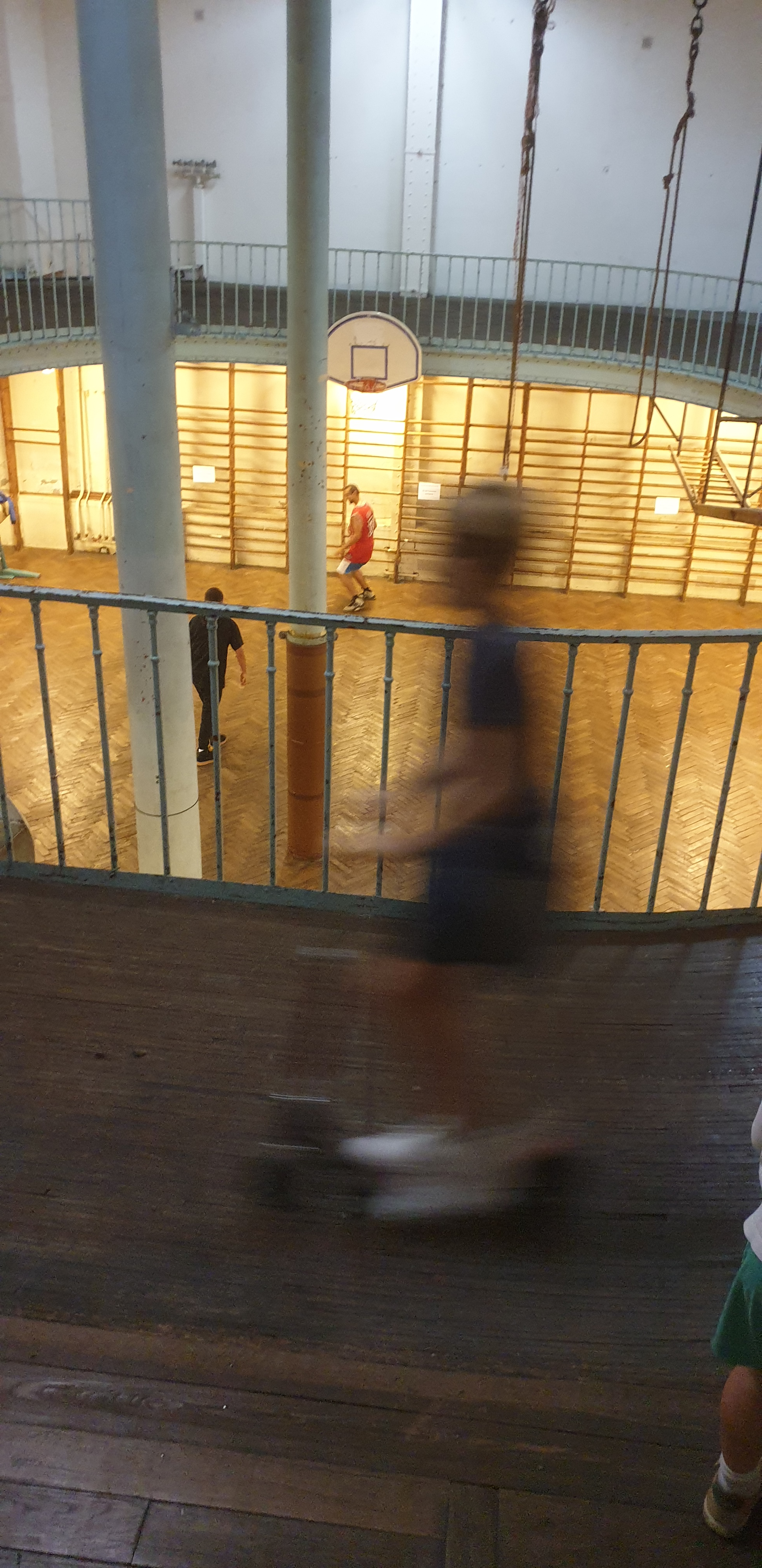 Oldest basketball court in the world, Paris, Trévise street.